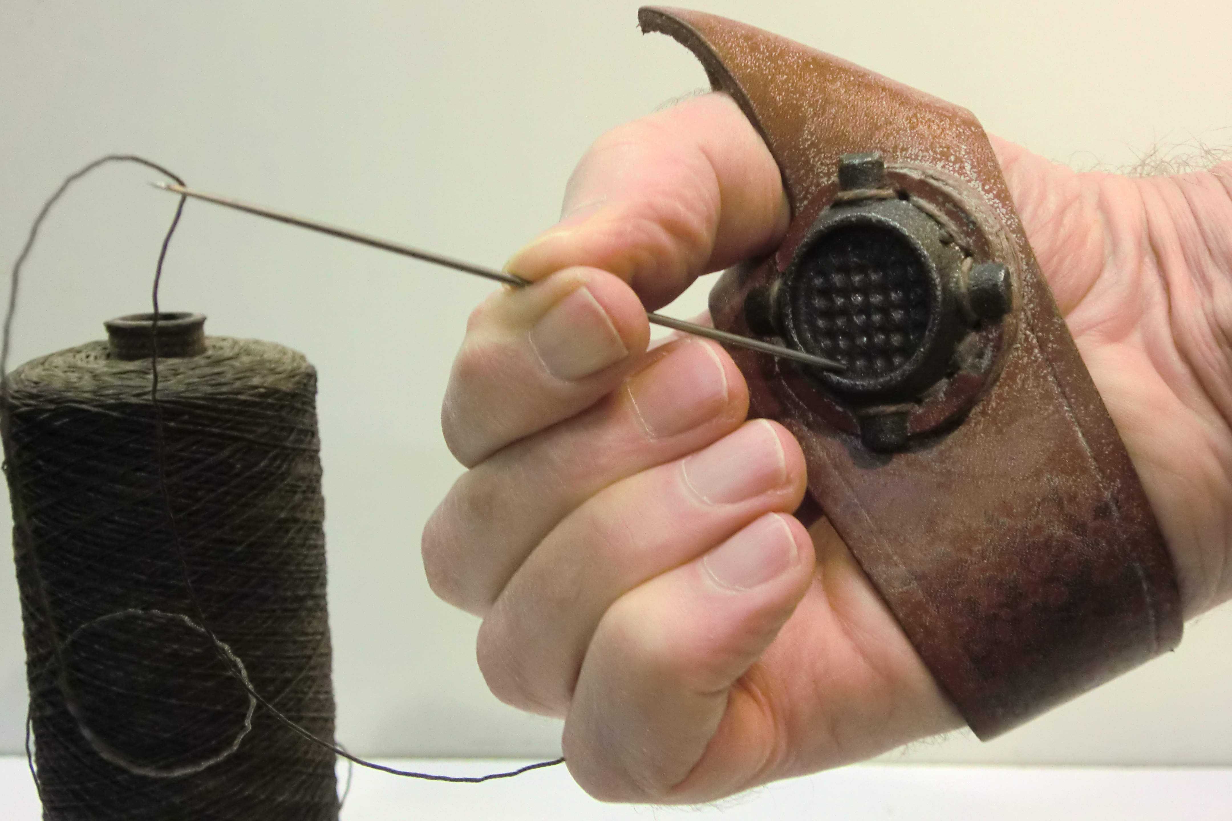 The application of a sailmaker's palm